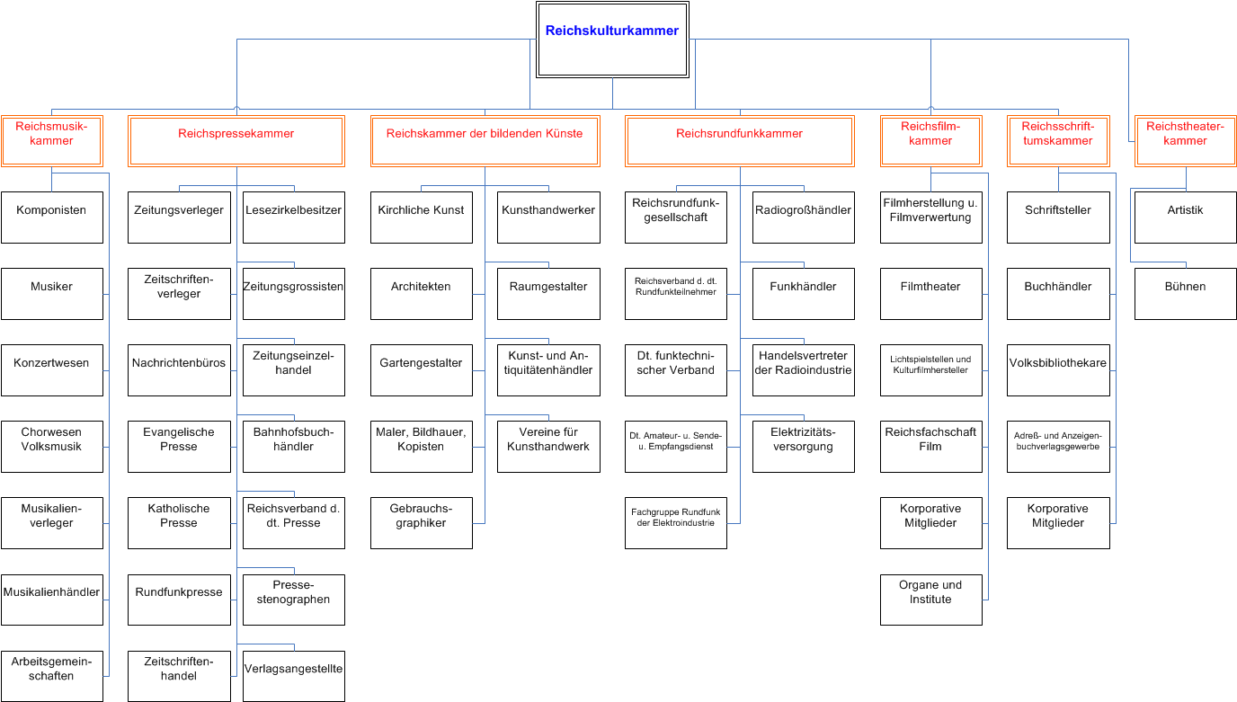 Organs of "Reichskulturkammer"